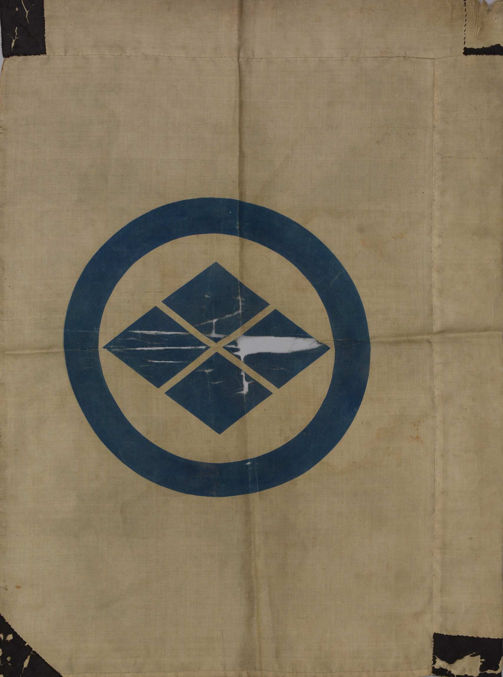 Flag with Crest of Kakizaki later Matsumae clan, Weltmuseum Wien, acquired by Heinrich von Siebold (1852–1908), perhaps on his 1878 visit to Hokkaido; left Japan at turn of century; Inv. No. 32569